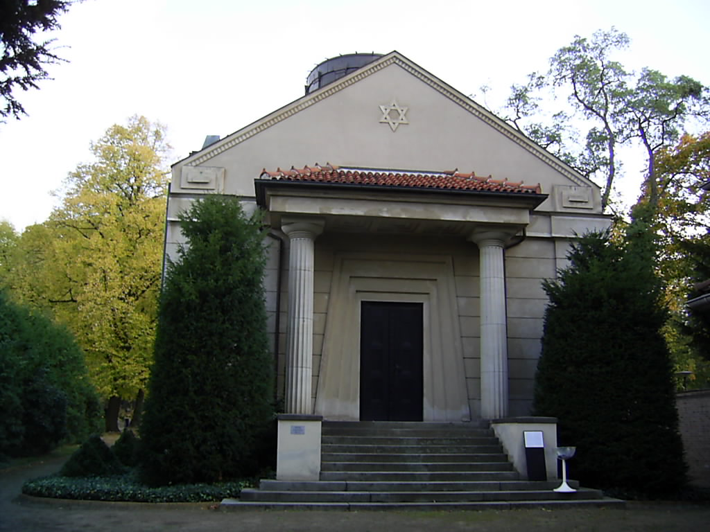 Jewish cemetery Potsdam, Germany